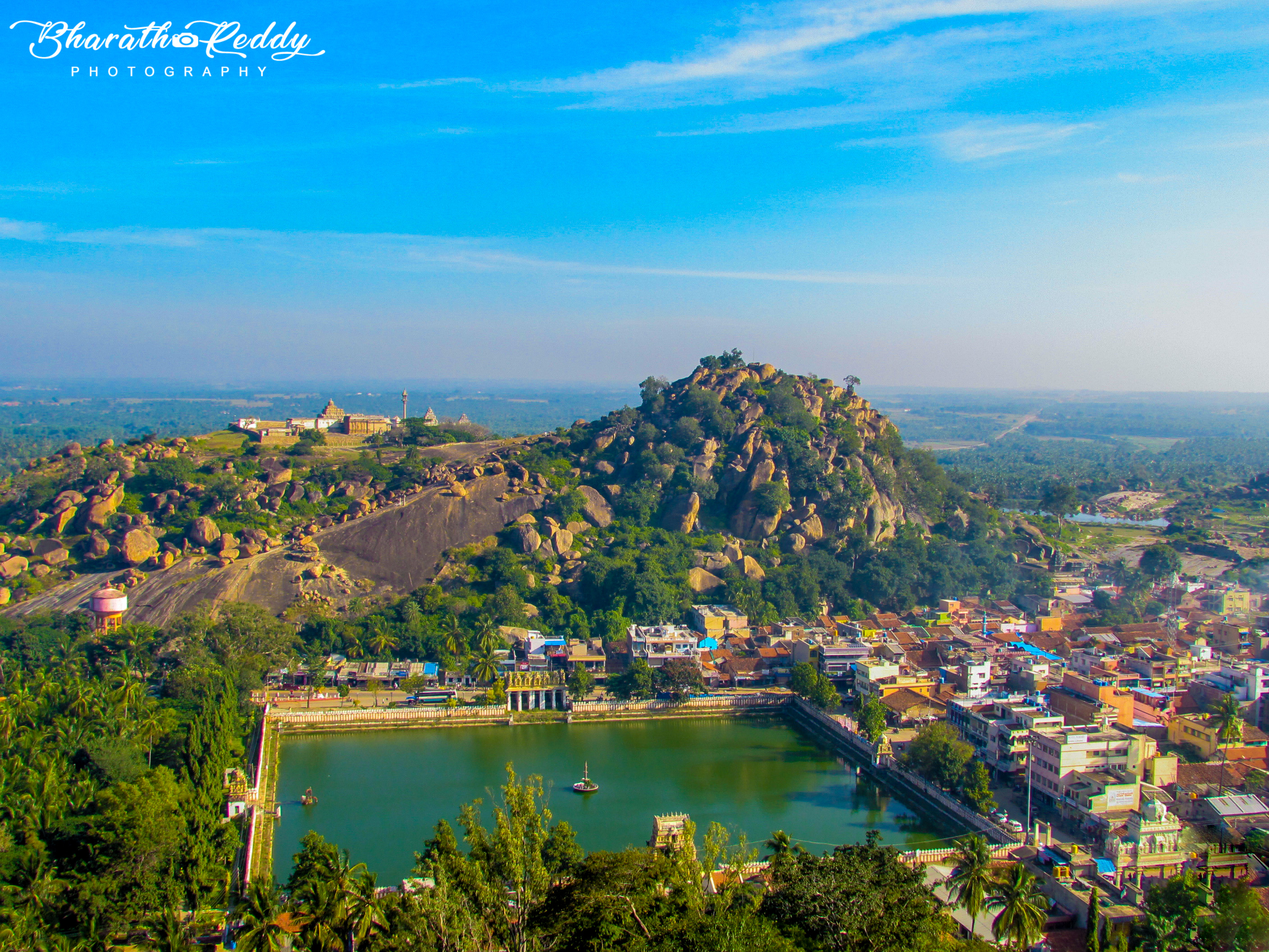 The view of Chandragiri hill and the city of Shravanabelagola from Vindhyagiri hill